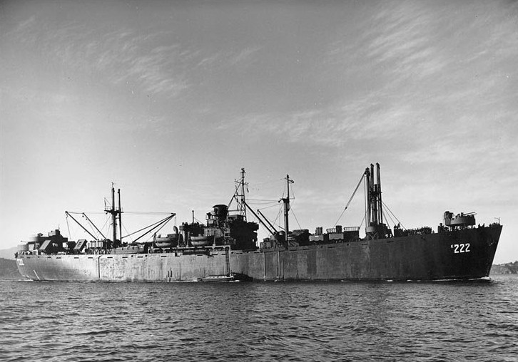 Photo #: NH 98738 USS Livingston (AK-222) In San Francisco Bay, California, in late 1945 or early 1946. Donation of Boatswain's Mate First Class Robert G. Tippins, USN (Retired), 2003.